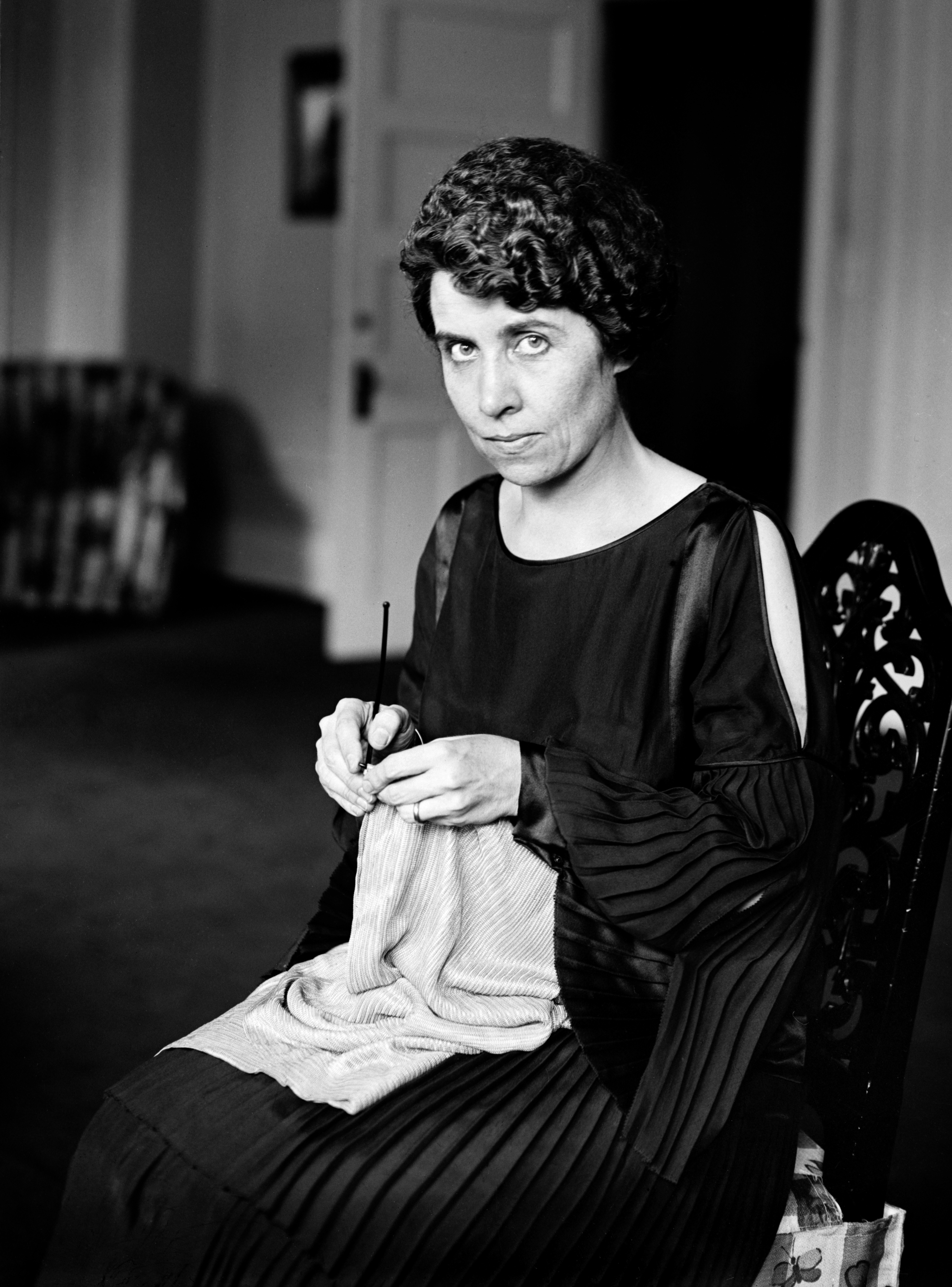 Grace Coolidge (1879–1957), half-length portrait, seated, knitting.